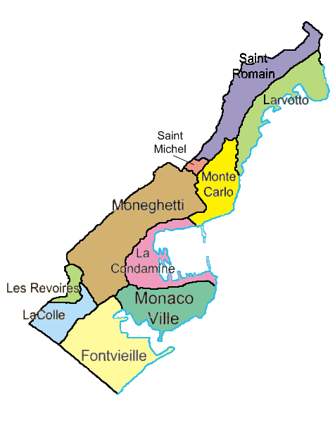 Monaco